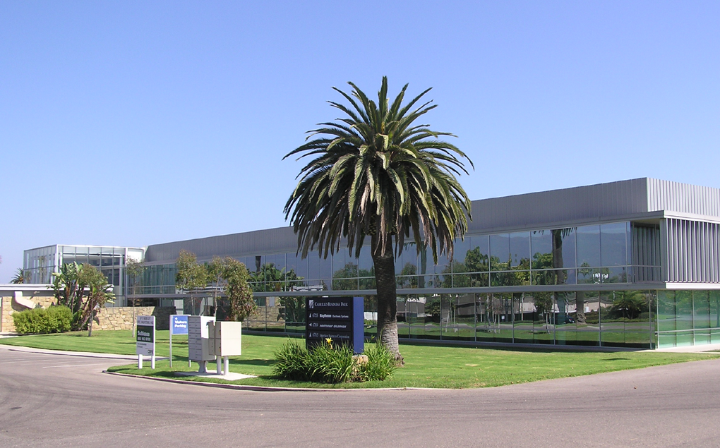 Cabrillo Business Park in Goleta, Santa Barbara County, California, USA The photograph was taken by Alan Mak on September 5th, 2005.